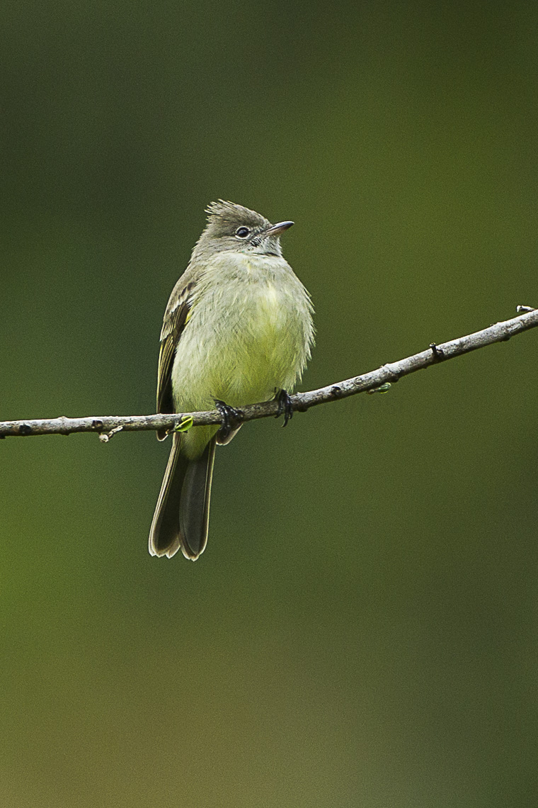 Southern Beardless-Tyrannulet - Colombia_S4E3531